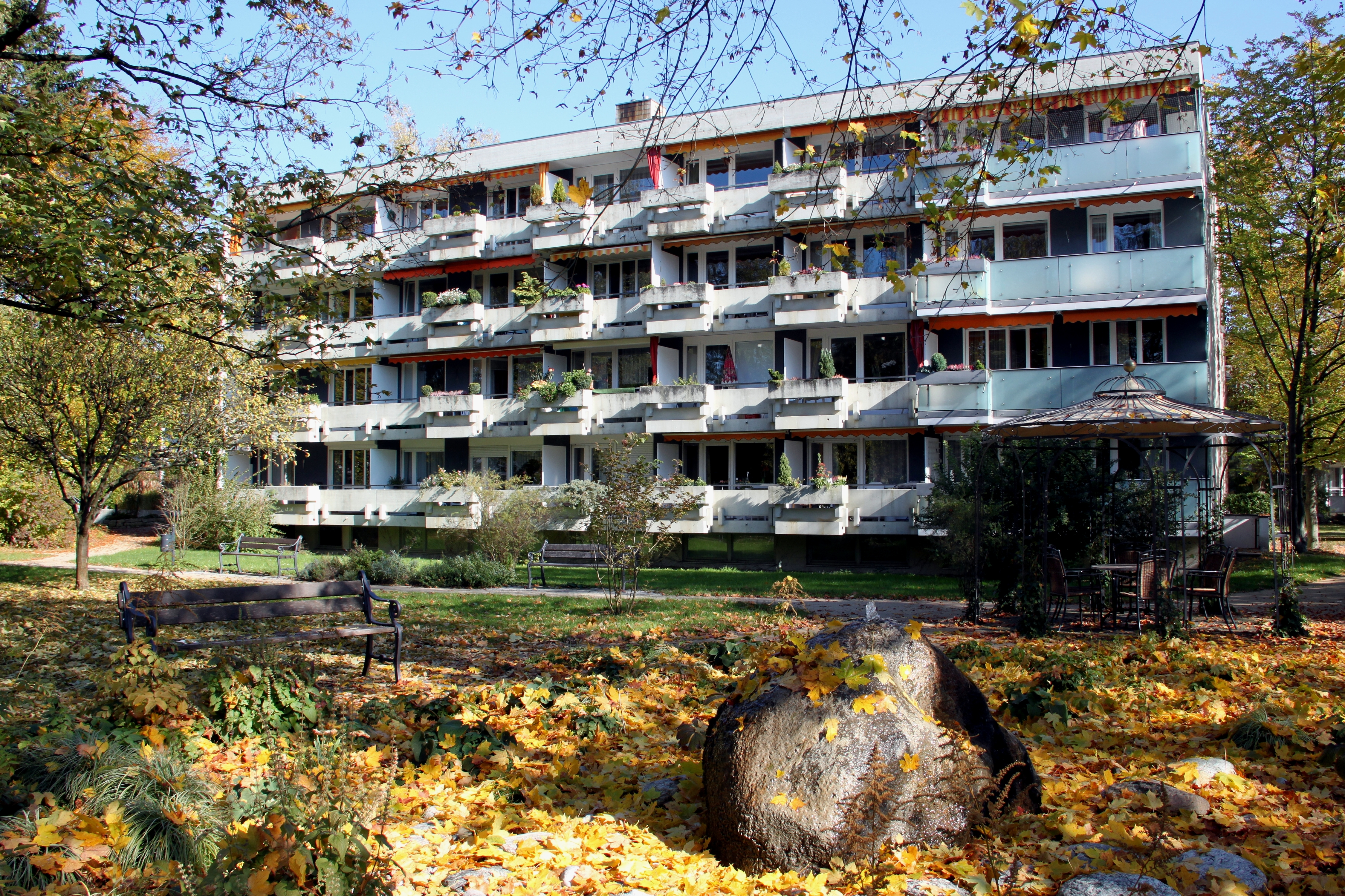 Ottobrunn (Ottostraße 44): The KWA Hanns-Seidel-Haus, established in 1970, is the oldest retirement home in the municipality.